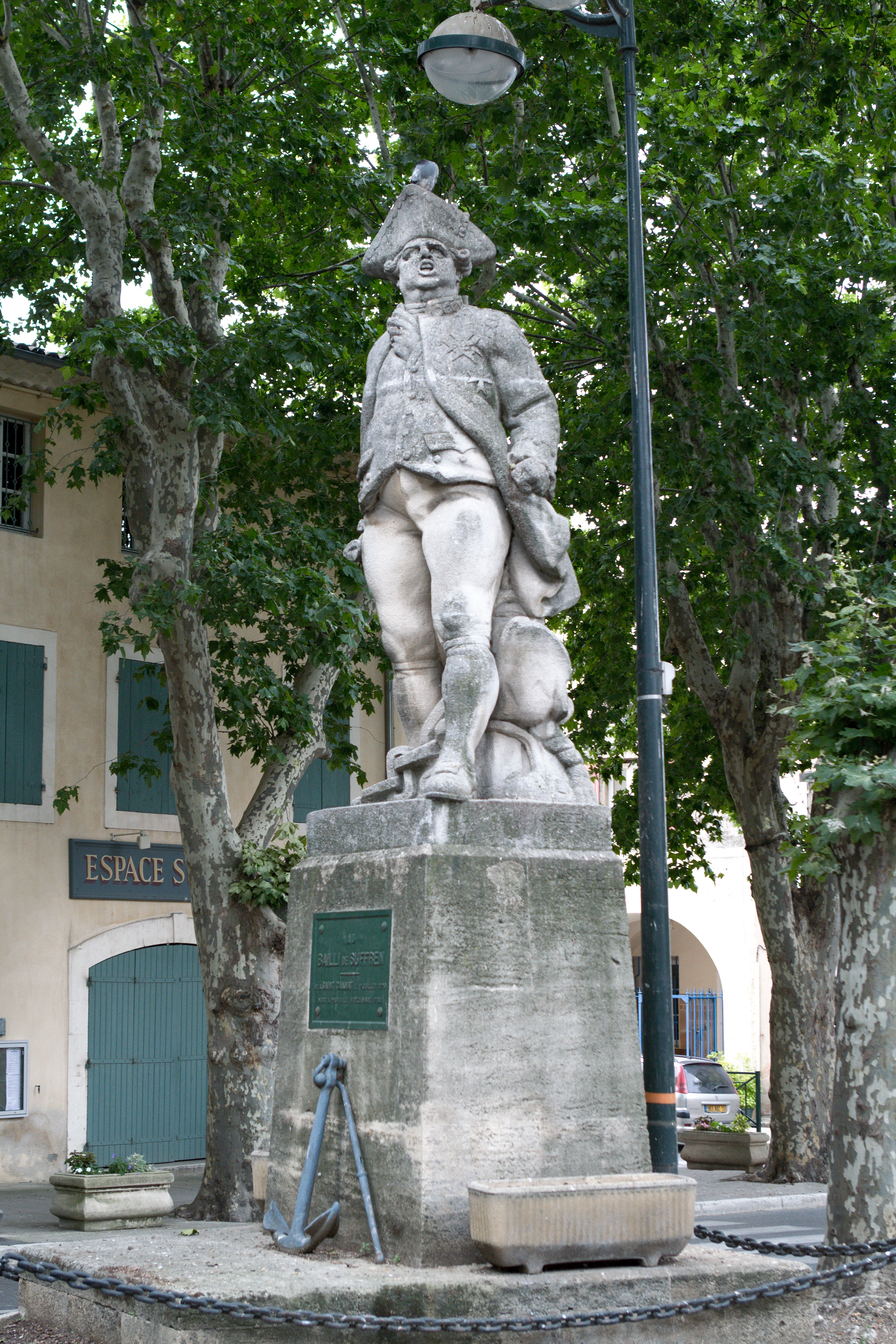 Statue of Pierre André de Suffren de Saint Tropez at Saint-Cannat, Bouches-du-Rhône (France).